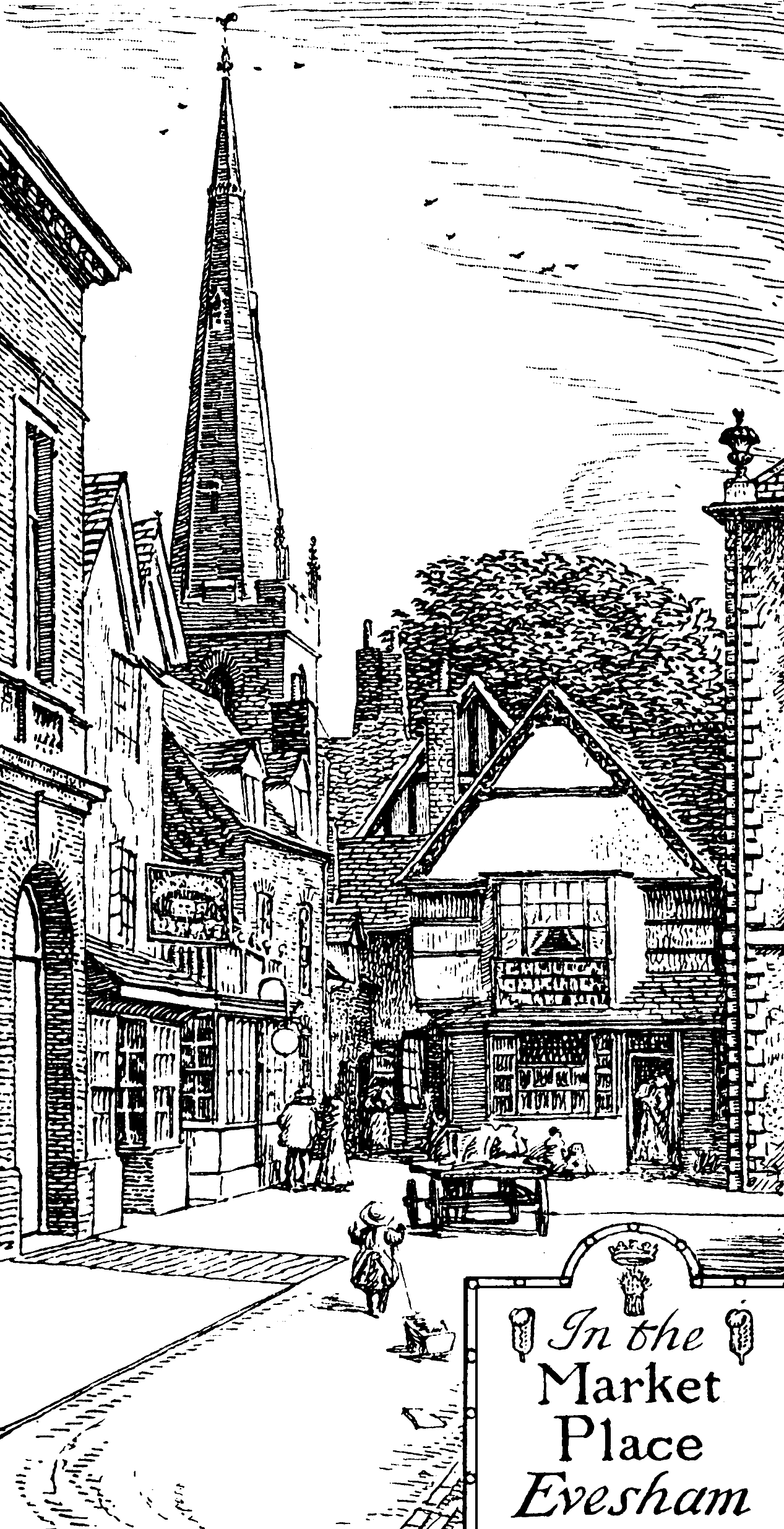 The Market Place in Evesham - from Project Guternberg eText 13754